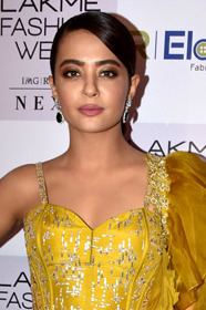 Surveen Chawla snapped attending the Lakme Fashion Week 2018, February 3.